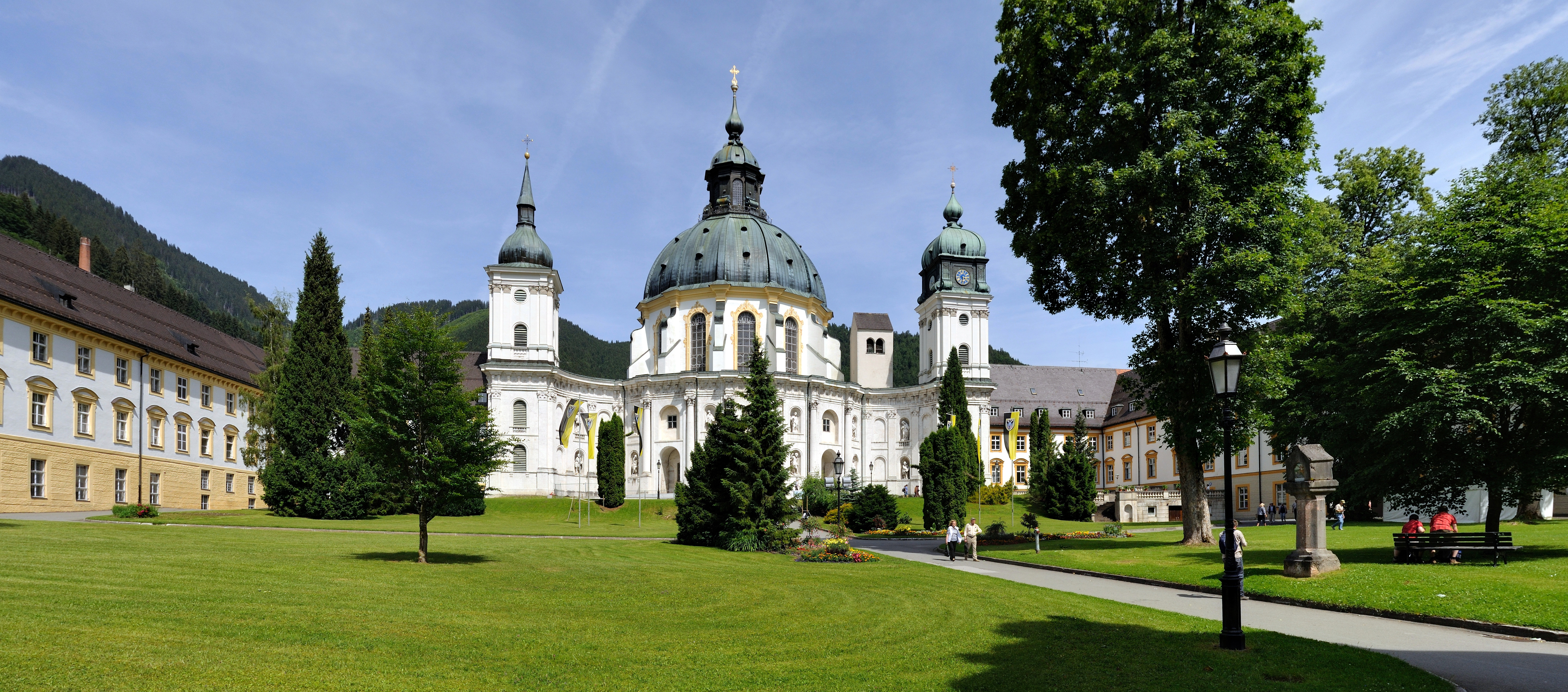 Ettal Abbey.